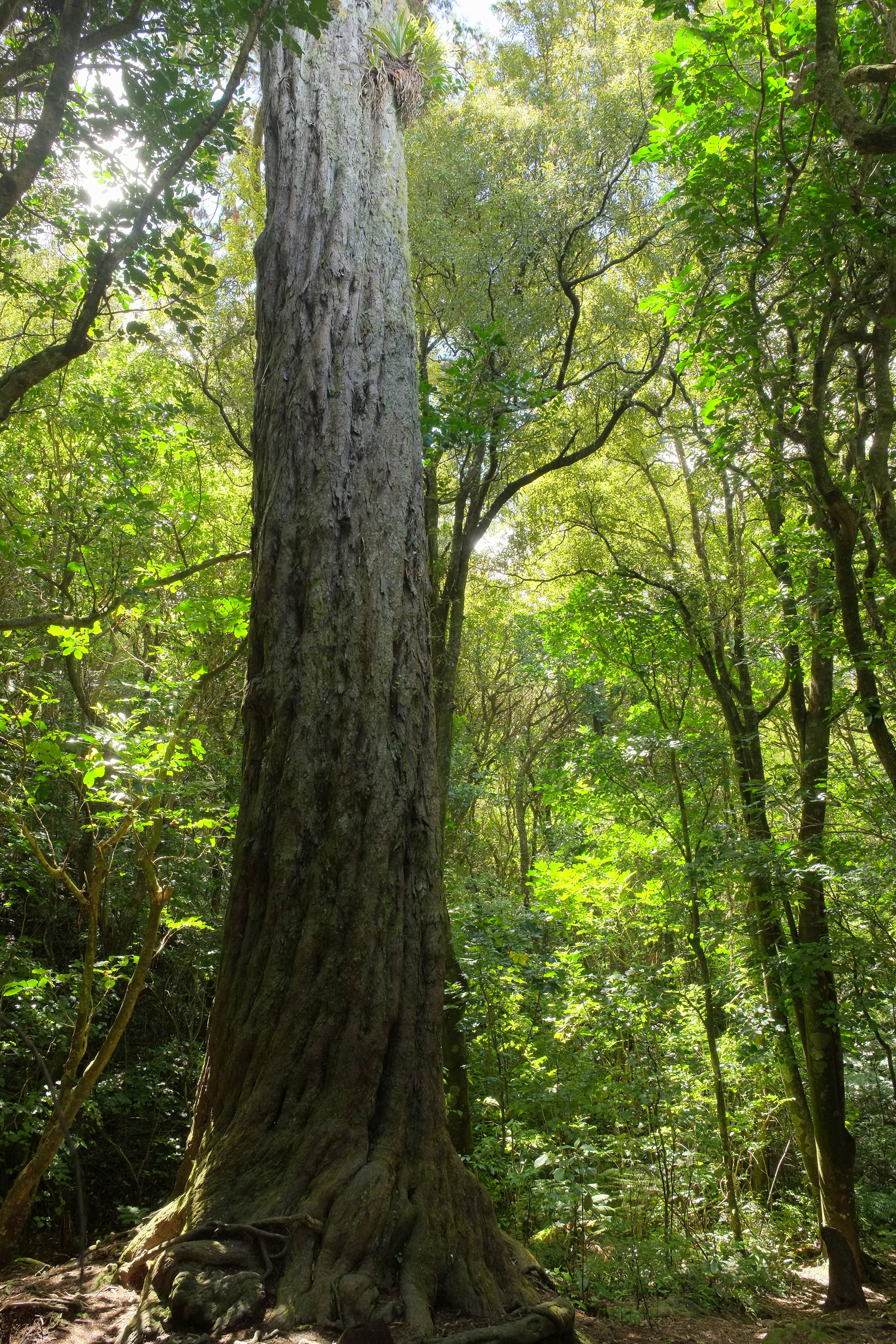 Trunk of 800 year old rimu in Otari-Wilton's Bush on the outskirts of Wellington City.